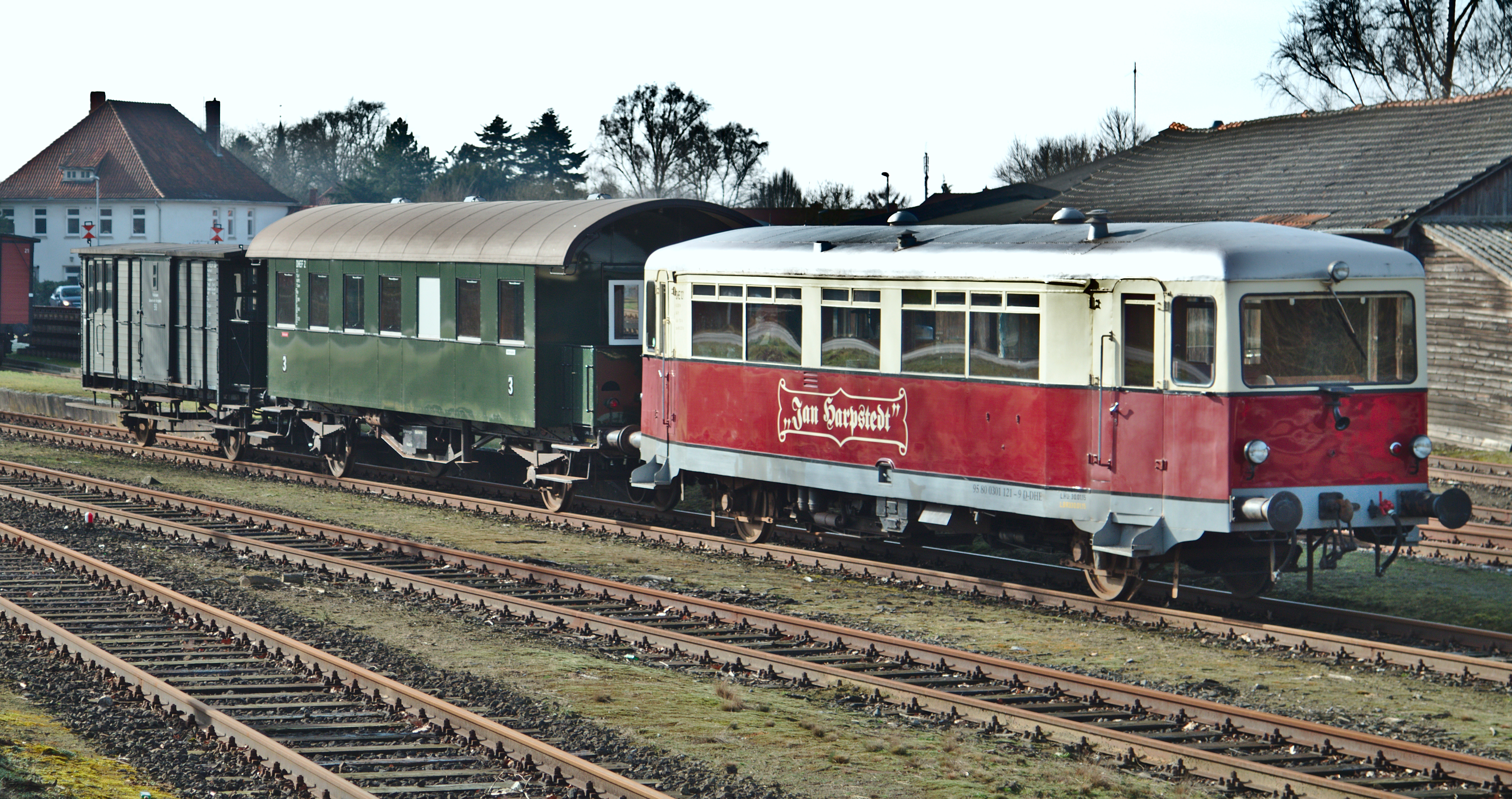 Train of the Delmenhorst-Harpstedt vintage rail society (DHEF) comprised of diesel motor car #121, two-axle passenger coach #2, and luggage car #56, heading for a traditional winter tour during shunting in Harpstedt station, Lower Saxony, Germany.